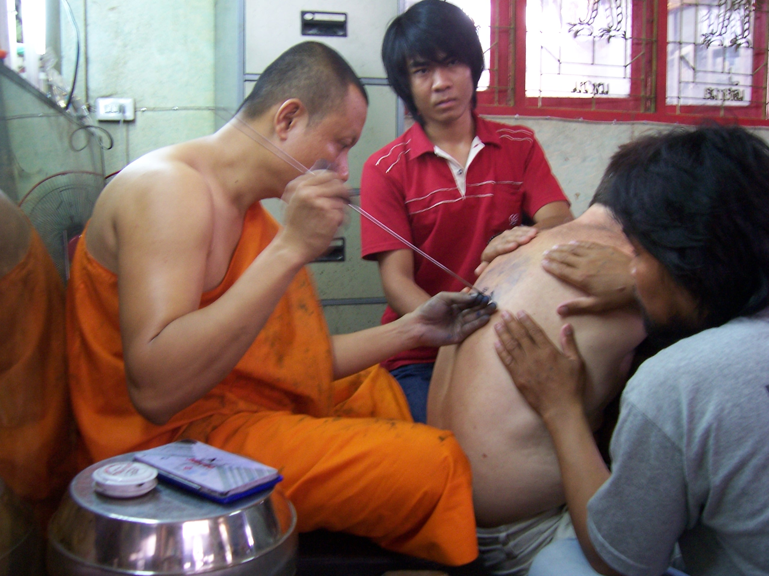 Tattpoing at Wat Bang Phra temple